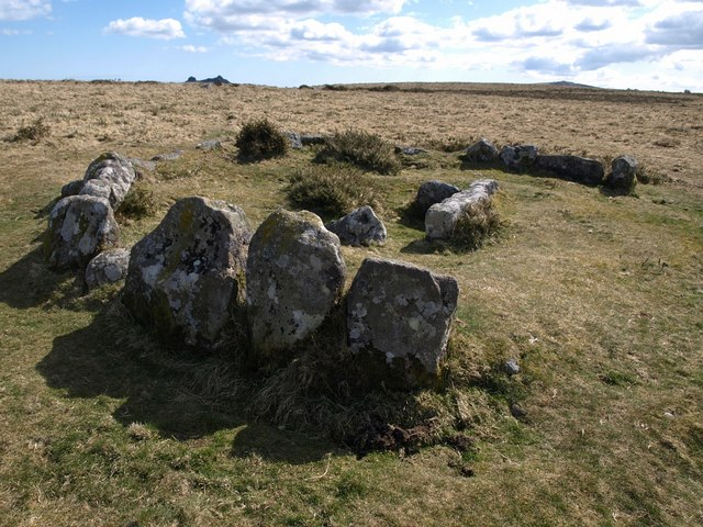 Cist burial , Houndtor Down "A cist burial (4000-5000 yrs old) of a crouched inhumation ... It would have been originally covered by a stone slab then covered with soil and a large circular curb set around it somewhat like a pudding bowl." Around it is an incomplete cairn circle.